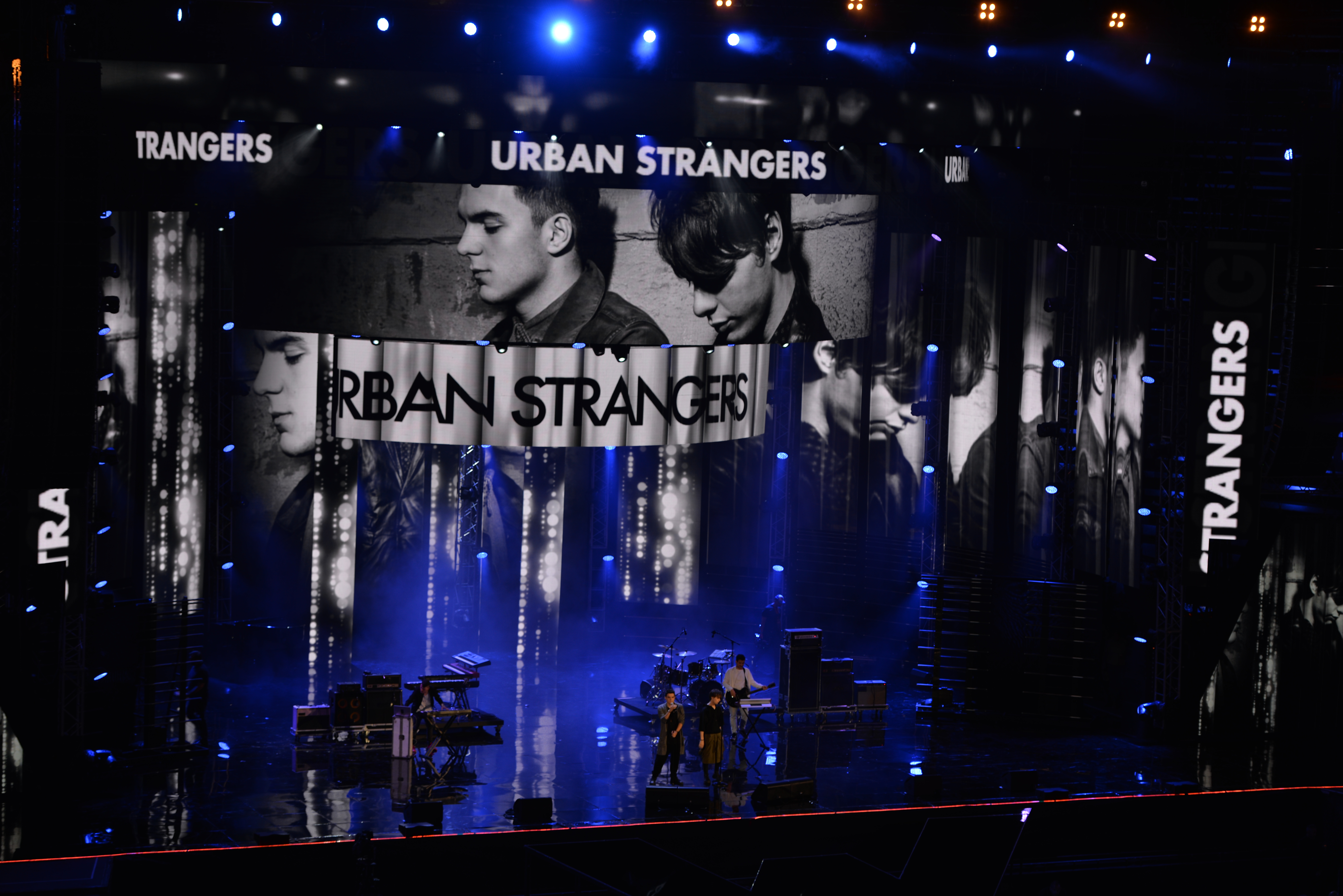 Urban Strangers during the Wind Music Awards 2016 ceremony at Verona Arena